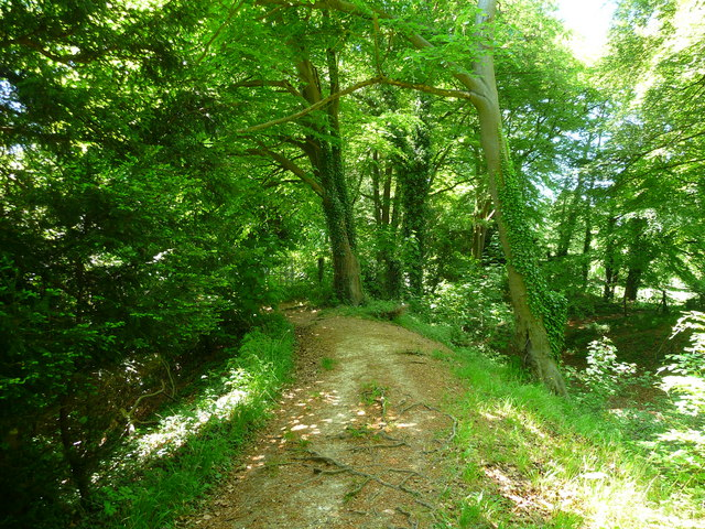 Anna Valley - Bury Hill Fort